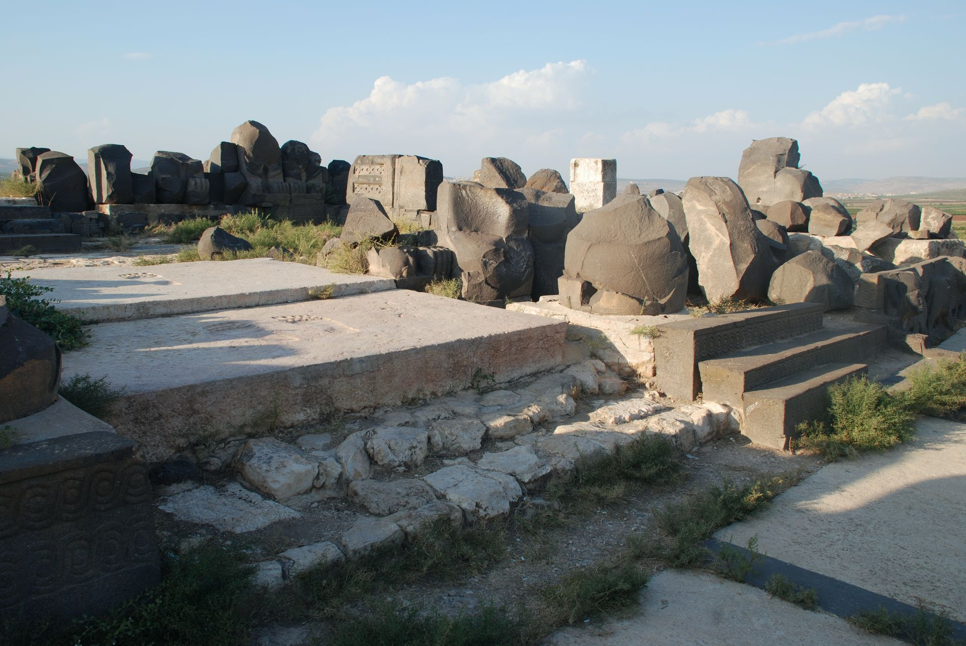 Tell Ain Dara, south of Afrin, Syria. Footsteps temple entrance